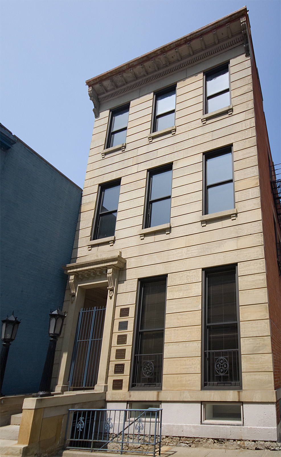 Abraham J. Friedlander house. Photo taken by Greg Hume